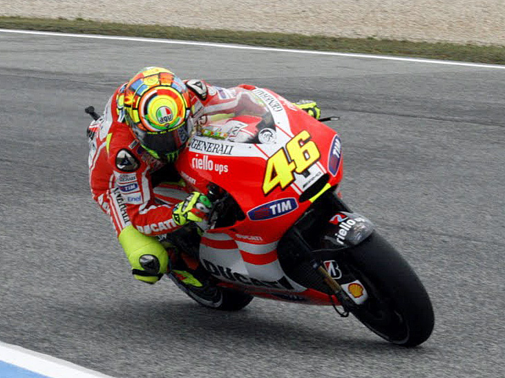 Valentino Rossi 2011 Estoril